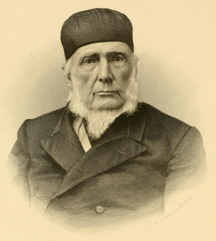 Joseph Grinnell, Congressman from Massachusetts